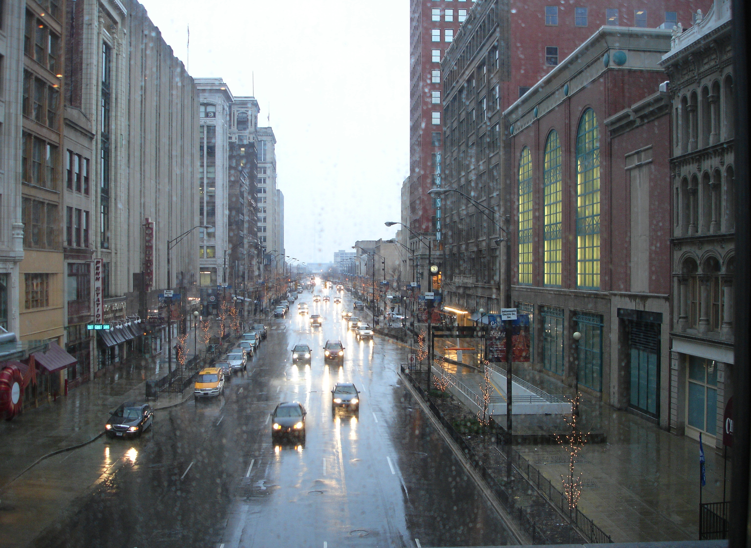 Taken from inside the walkway over the street near the City Center mall. Performance venue of some kind -- I'll have to look up the name. There were benches and a couple of people always sitting here watching the cars go by. A very Neo-parisian activity.